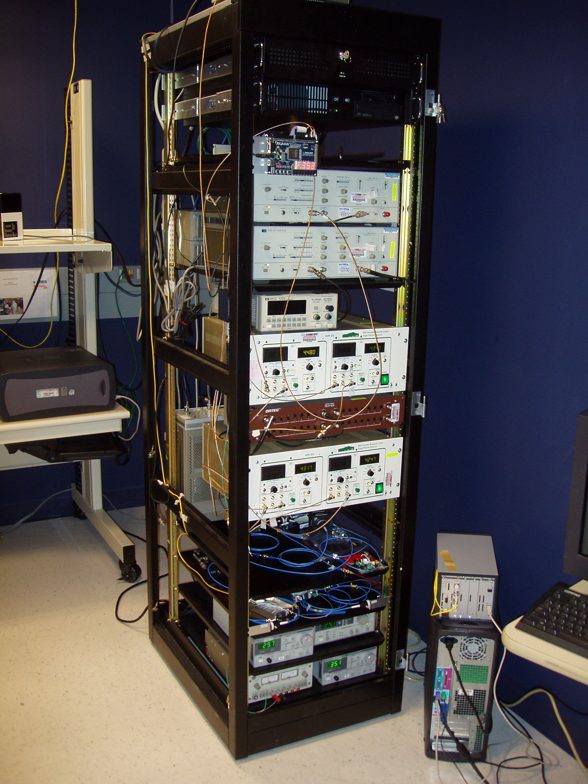 Entangled link - Barb - DARPA Quantum Network, in the BBN laboratory. December 2004. Created by Boston University and BBN.